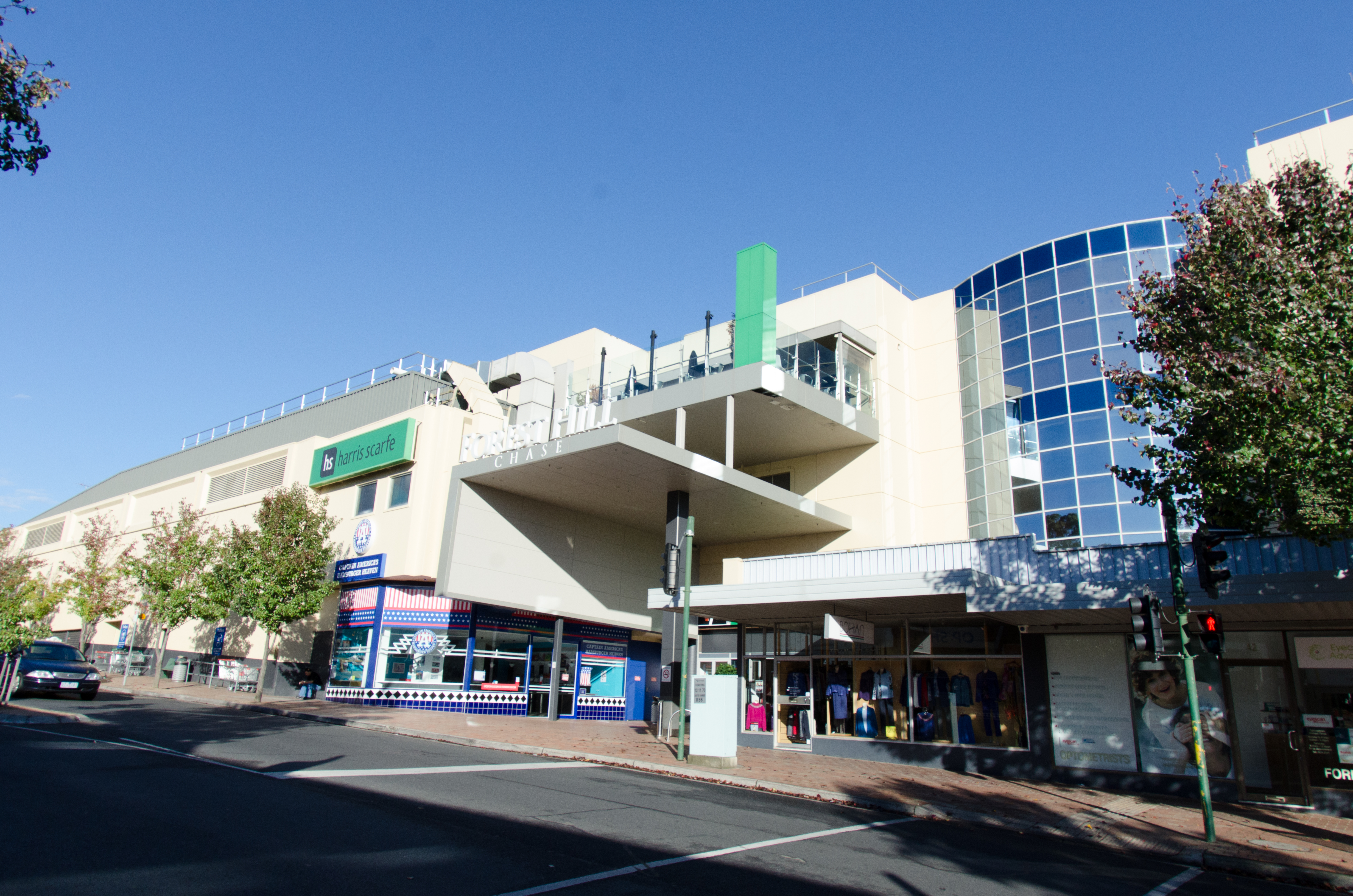 Forest hill chase lens corrected